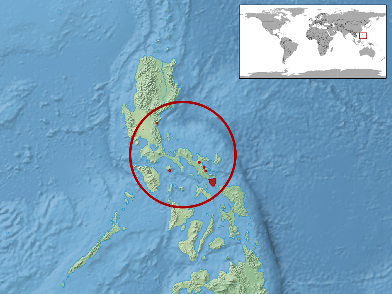 Geographic distribution of Parvoscincus laterimaculatus (RDB), syn Sphenomorphus laterimaculatus (IUCN). Sphenomorphus knollmanae (IUCN) was synonymized with Sphenomorphus laterimaculatus by BROWN et al. (2010).